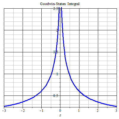 Goodwin-Staton Integral Maple 2D plot